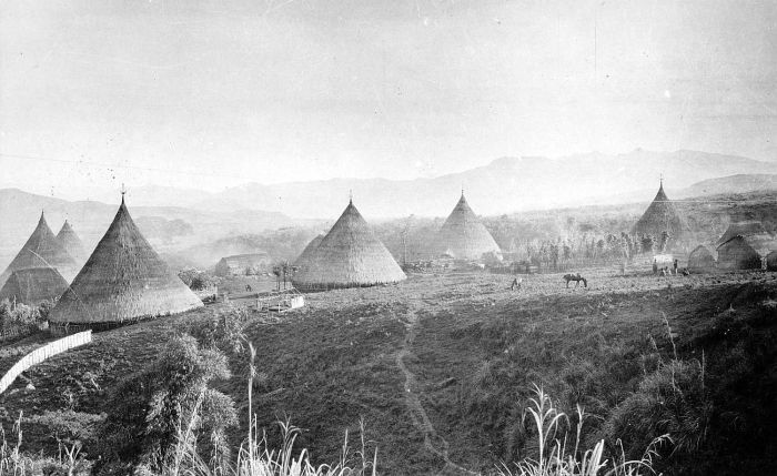 View over the Manggarai village Cumbi